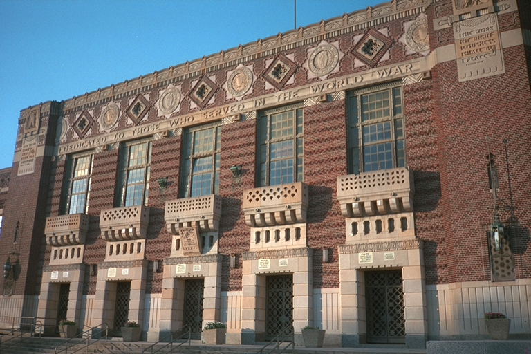 Shreveport Municipal Auditorium (site of Louisiana Hayride)